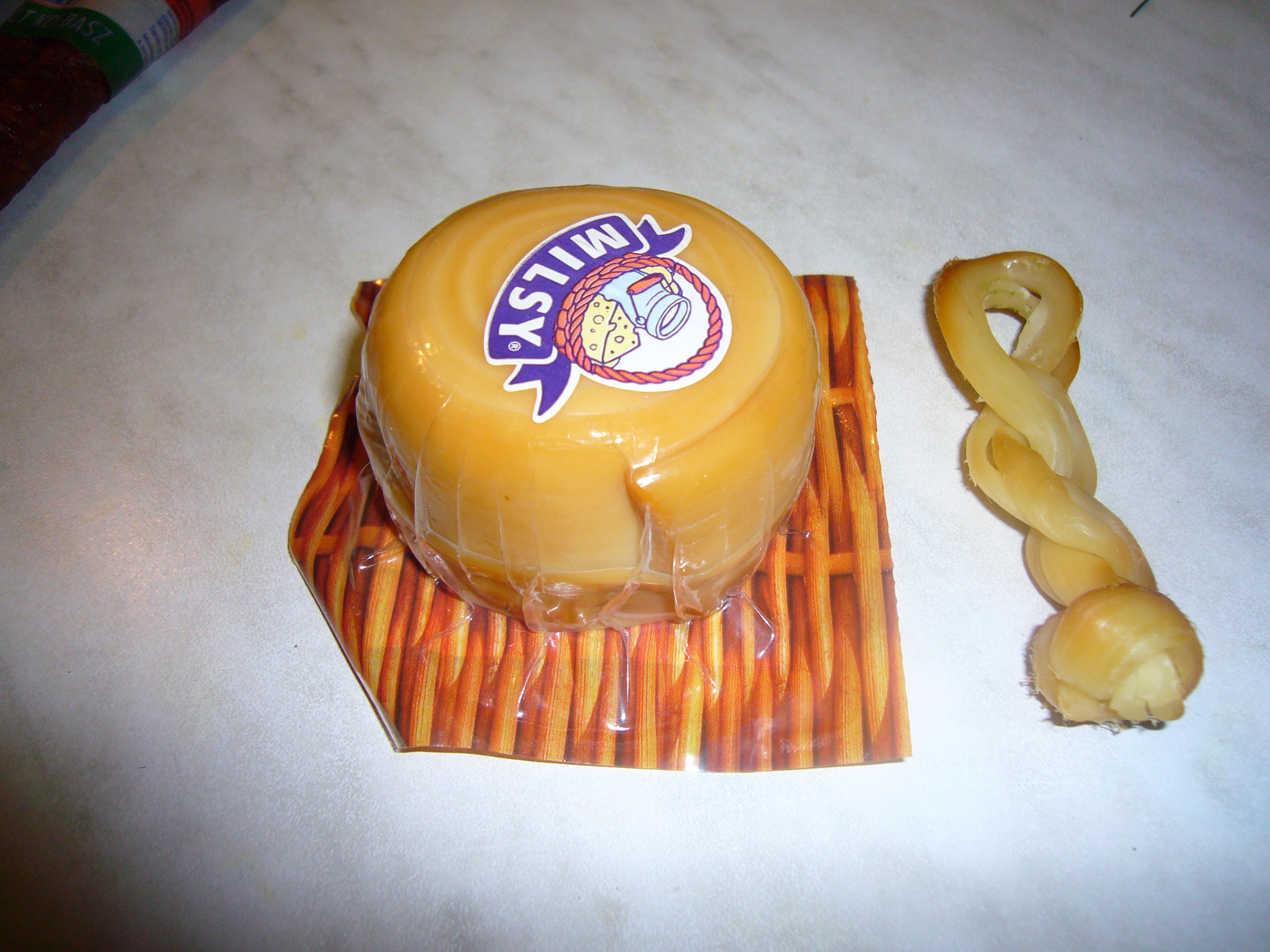 Smoked cheese - typical for Czech and Slovak shepherds.